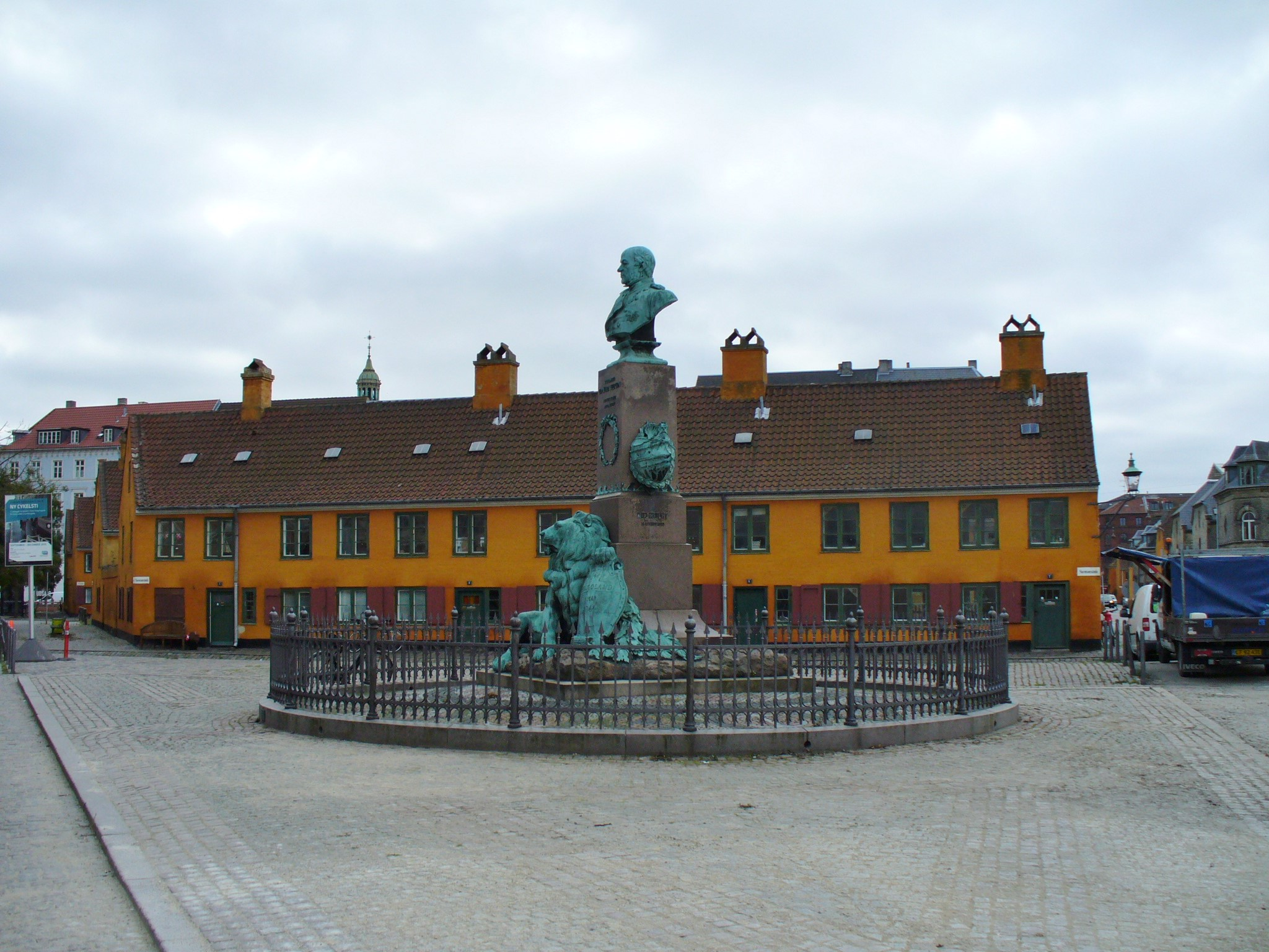 Monument to Edouard Suenson on unnamed square between Store Kongensgade, Suensonsgade and Borgergade in the area Nyboder in Copenhagen.